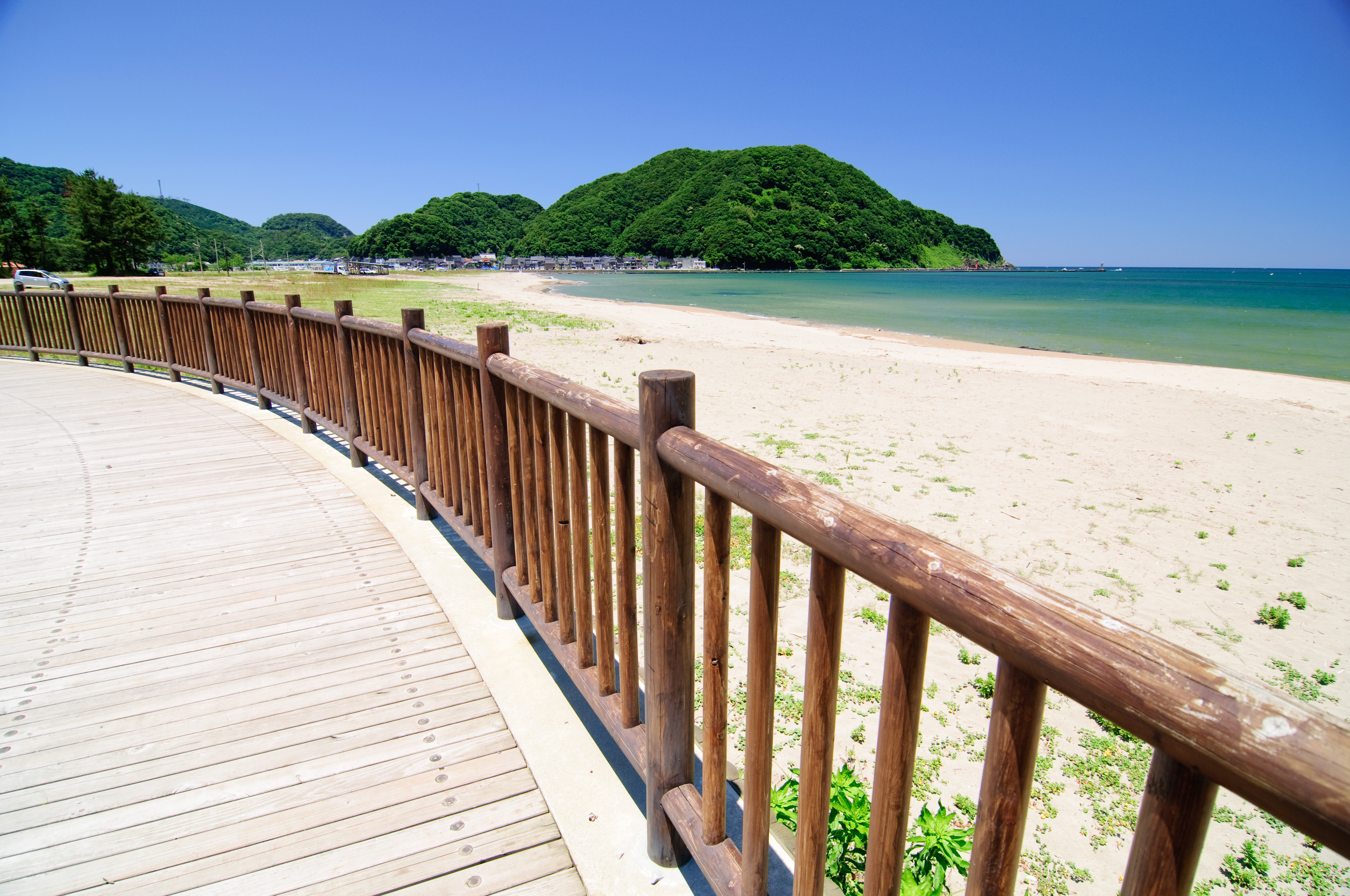 keinohama Beach